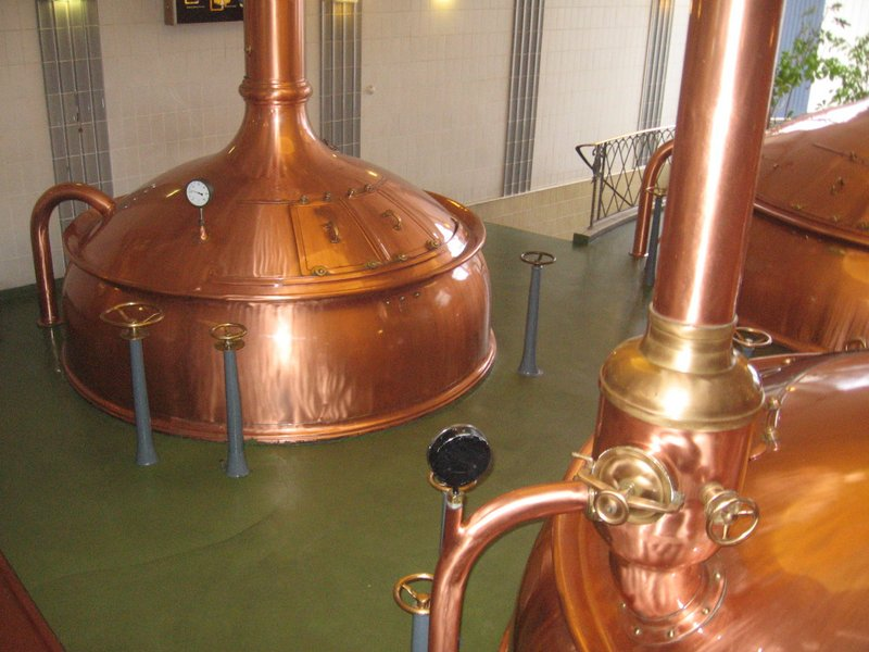 Old copper brewery-kettle Herforder Pils, Germany